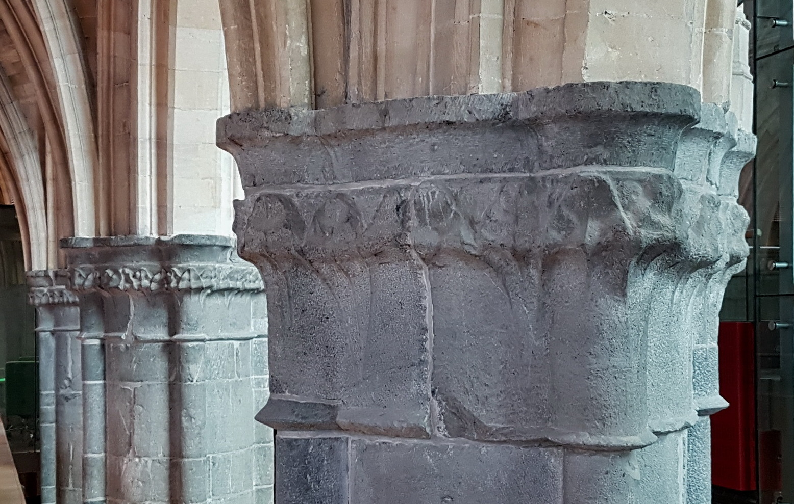 Late Gothic columns with carved capitals separating the nave and the north aisle of Kruisherenkerk in Maastricht, the Netherlands. The Gothic church and monastery of the Croziers (or Crutched Friars) dates from the 15th century and was converted into a luxury hotel (Kruisherenhotel) in 2003-05.